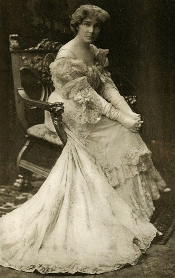 american stage & film actress Edythe Chapman - publicity still (original image cropped : see source)